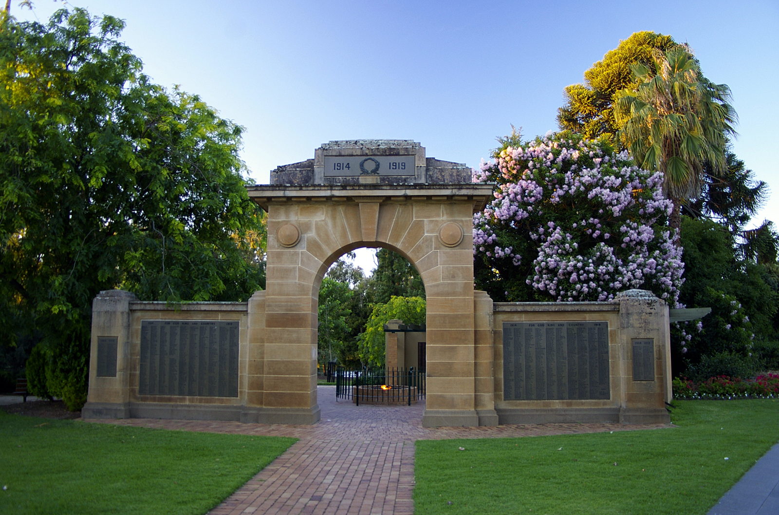 Memorial Archway located in the Victory Memorial Gardens in Wagga Wagga, New South Wales.